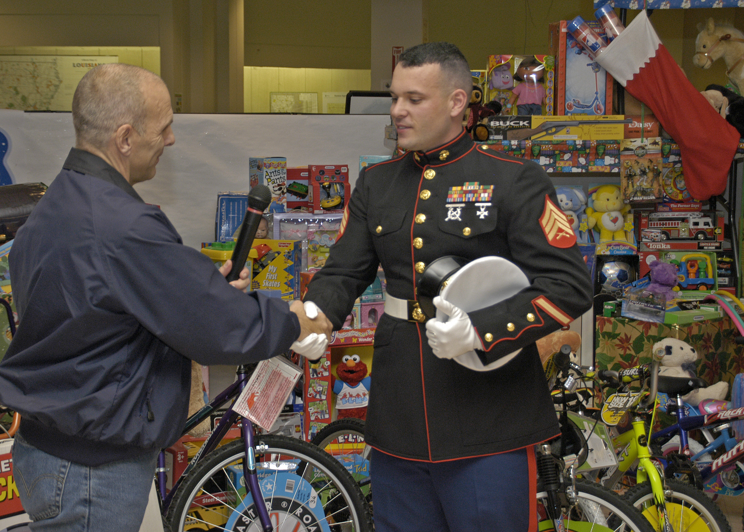 Baton Rouge, LA, 12-10-05 -- Hurricane Katrina FEMA Federal Coordinating Officer Scott Wells turns over donated toys to Marine Corps Sgt. Geberth. The Baton Rouge JFO Toys for Tots drive netted donations that filled 2-26 foot Penske box trucks which will be distributed to needy children throughout Louisiana. MARVIN NAUMAN/FEMA photo